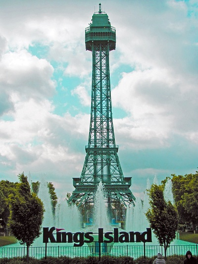 Kings Island's beautiful International Street entrance.